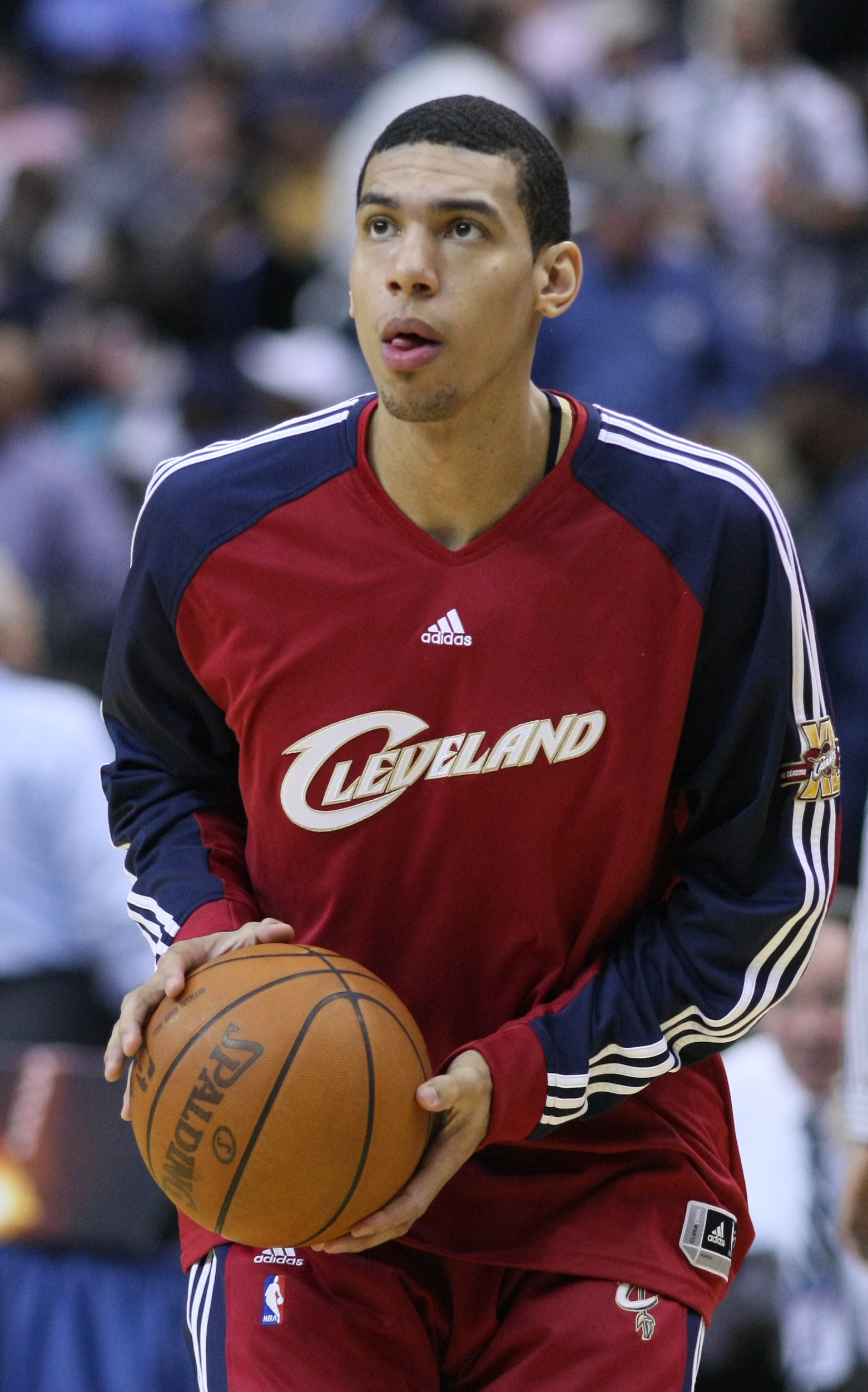 Danny Green of the Cleveland Cavaliers. Washington Wizards v/s Cleveland Cavaliers November 18, 2009 at Verizon Center in Washington, D.C.